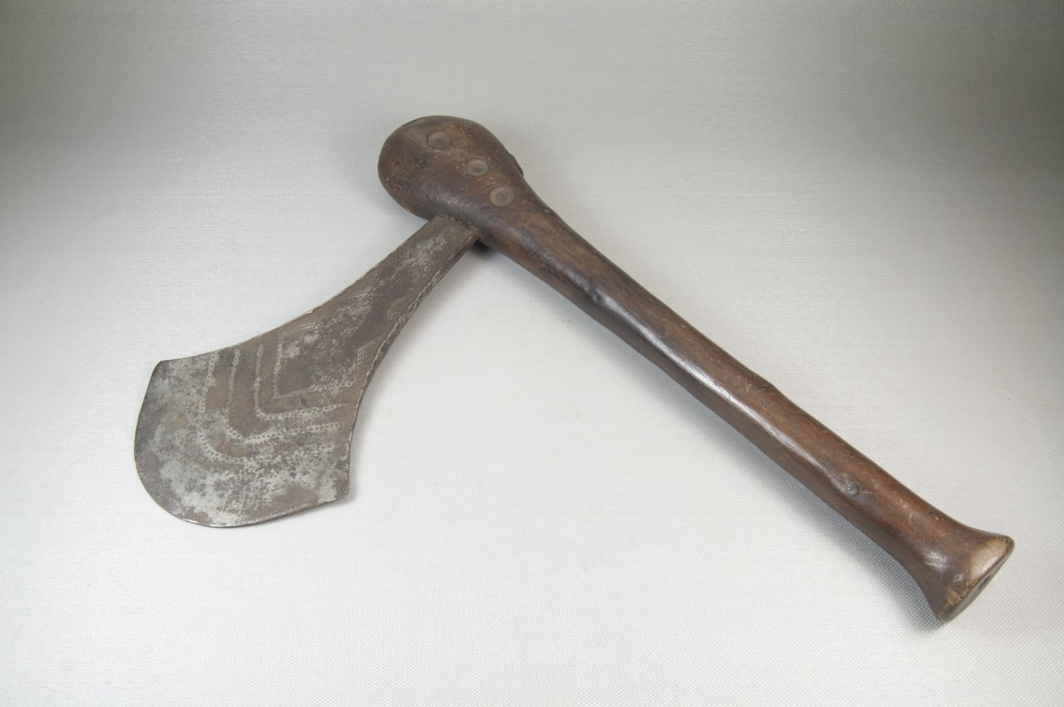 Axe with Handle and Blade